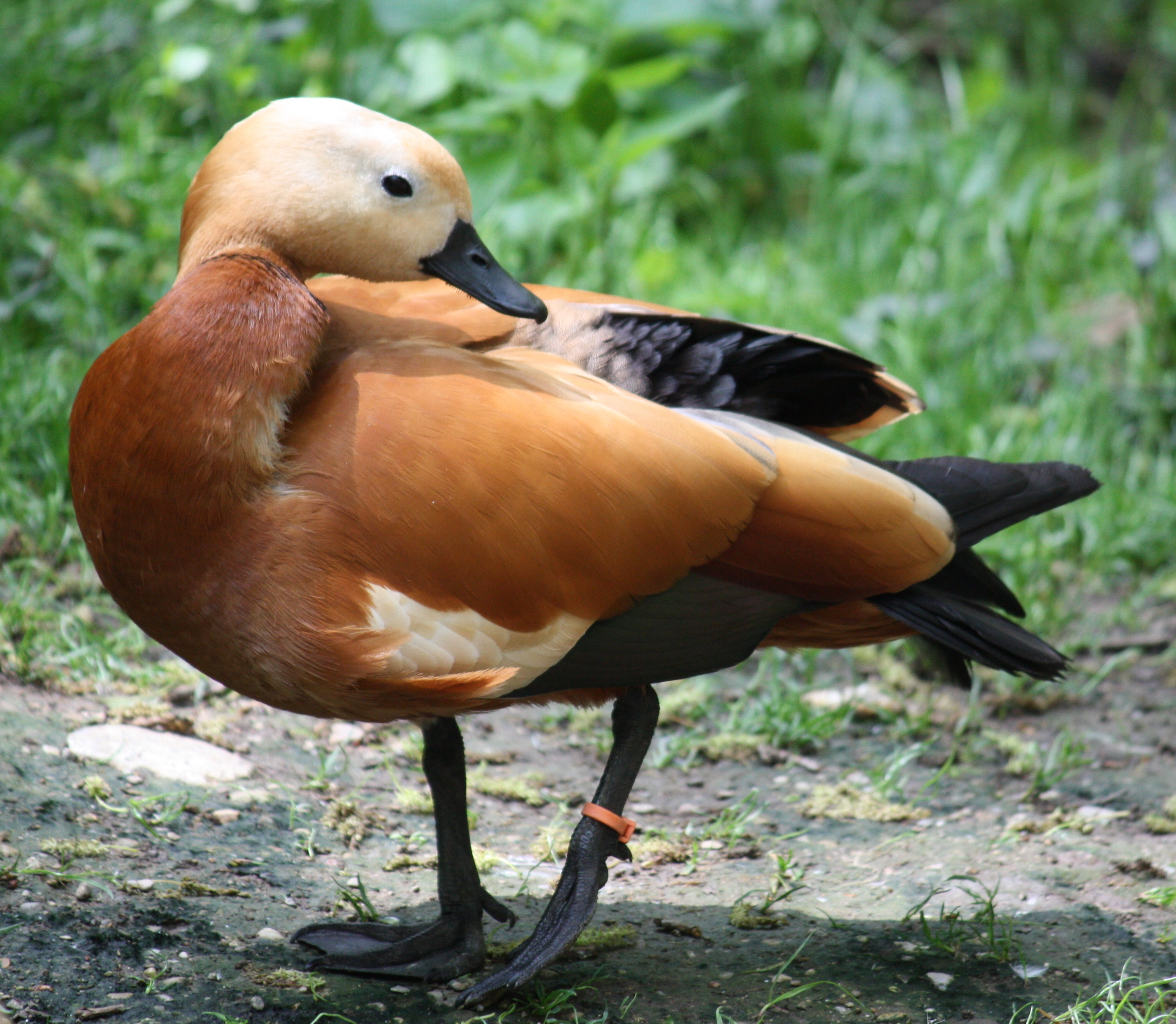 Ruddy Shelduck Tadorna ferruginea at Cincinnati Zoo